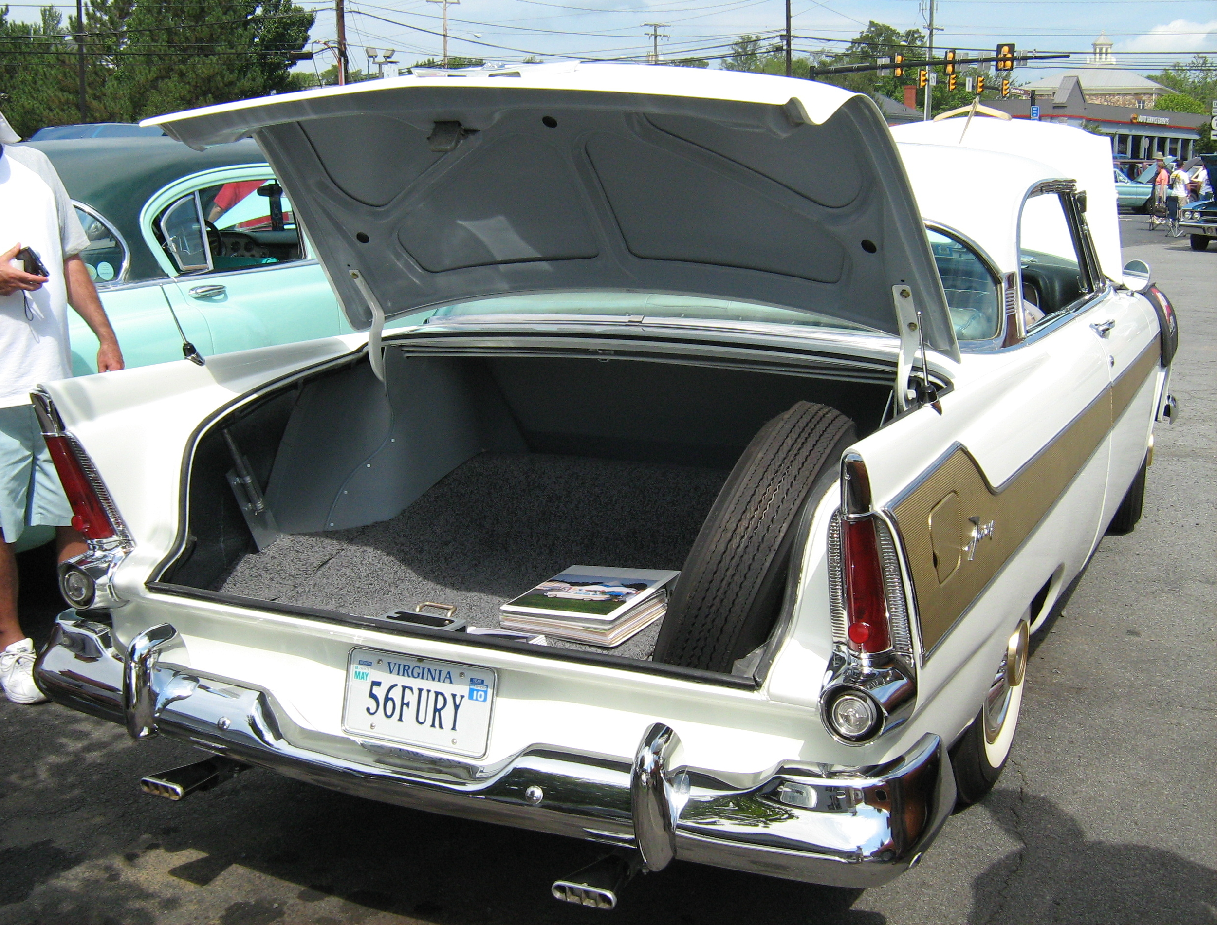 1956 Plymouth Fury - two-door hardtop - rear.